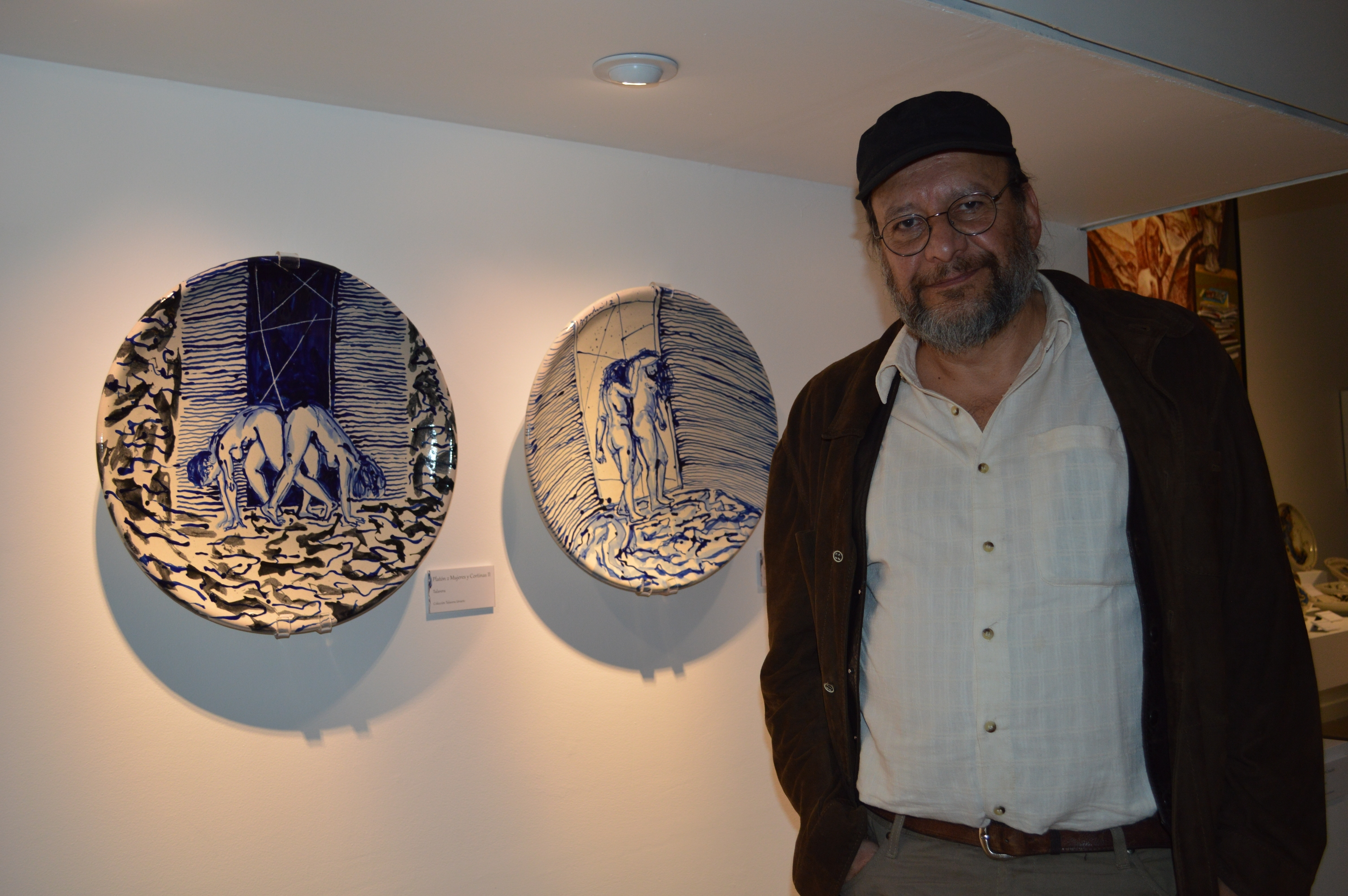 Luis Argudín and two of his ceramic plates at the opening of the La pintura en la tierra, la pintura en el espacio at the Museo de Arte Popular in Mexico City